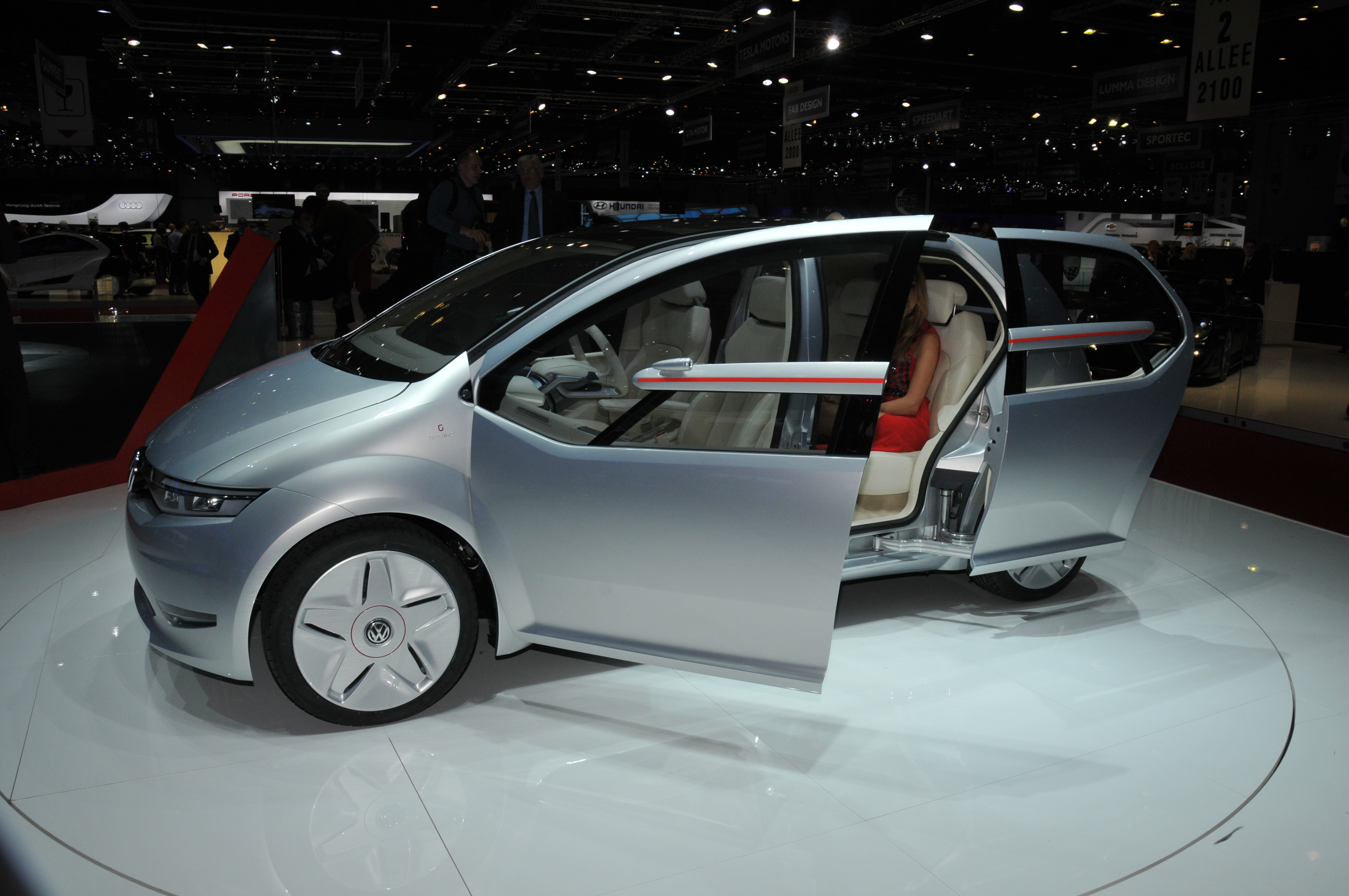 The Italdesign Go! is the hatchback interpretation of the future design of the Volkswagen A0 segment made by Giugiaro for the 81st Geneva Motor Show. For more info, photos and specs